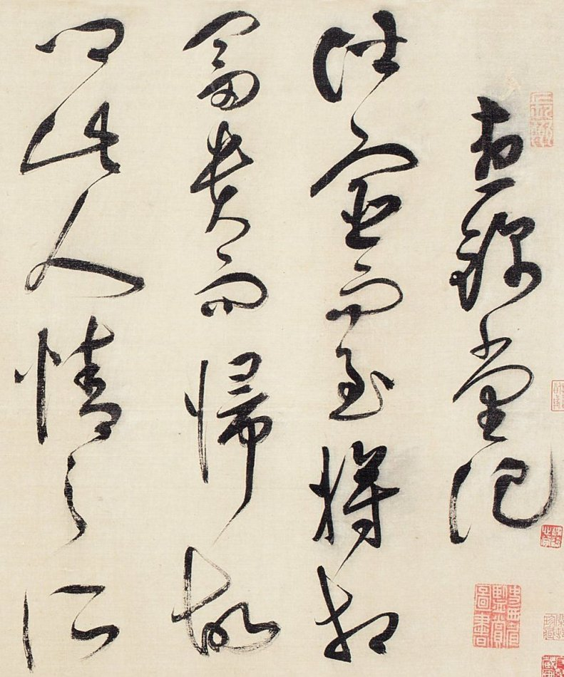 Zhou Jin Tang Ji, calligraphy by Ming dynasty calligrapher Zhu Yunming, essay by Song dynasty writer Ouyang Xiu